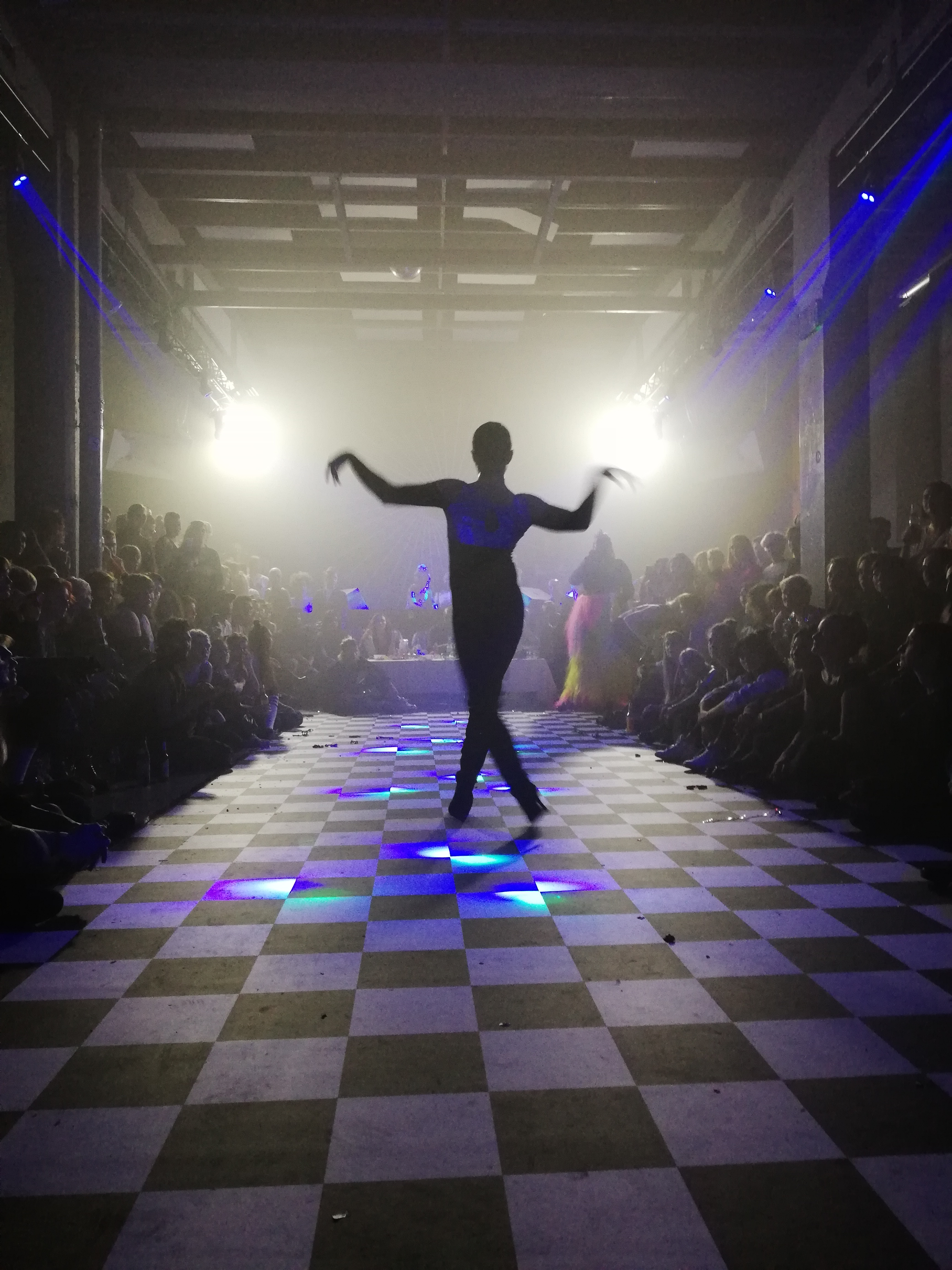 Voguing ball as part of "Give me life" voguing festival in Berlin, November 2018